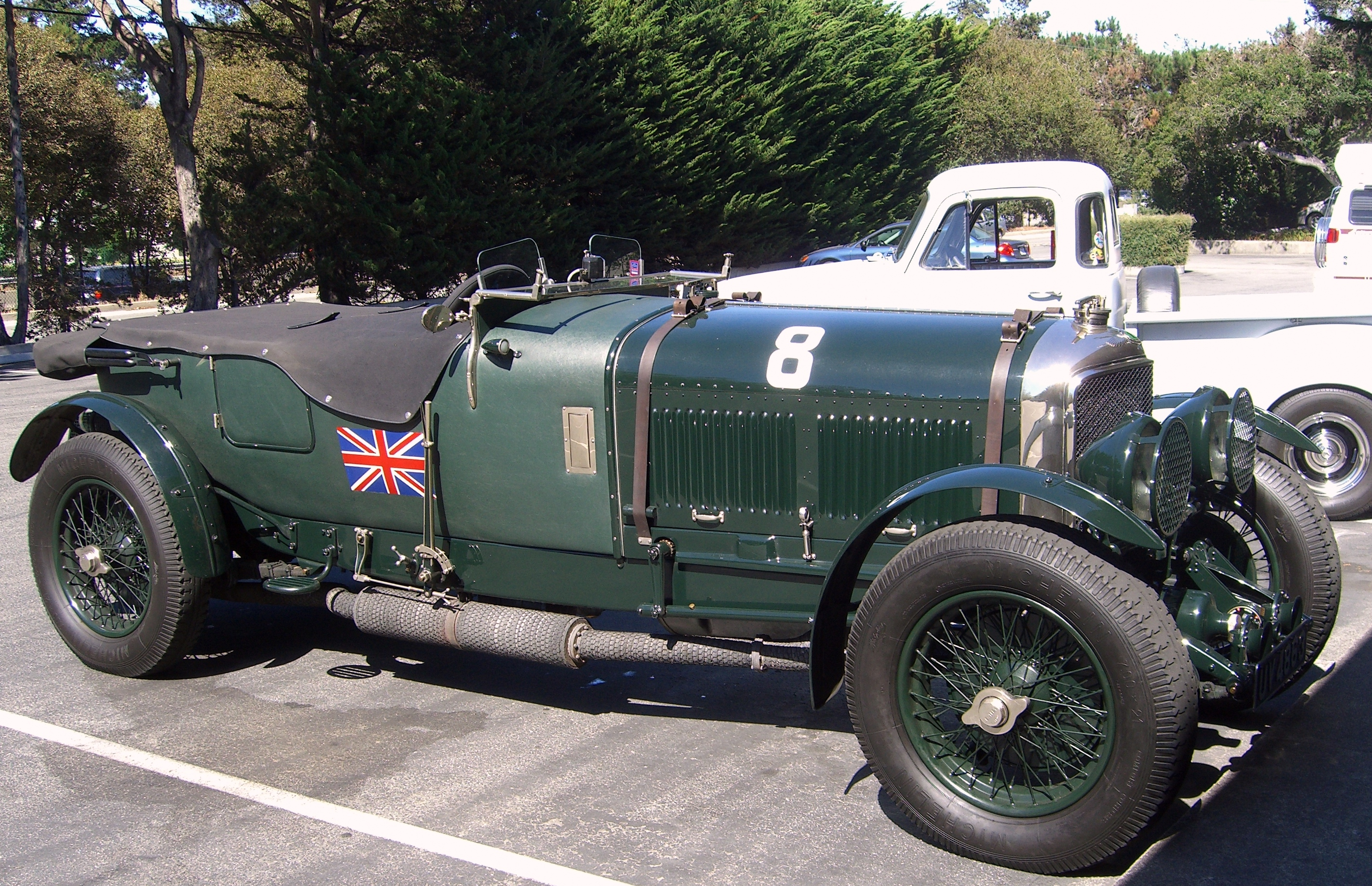 Bentley Speed Six replica body on a 1929 SB2 chassis, prepared for racing. This car (chassis FR2642, engine FR2646) originally had a Weymann saloon body by Lancefield and was delivered new in August 1929 to a Major G. Heron.[1]